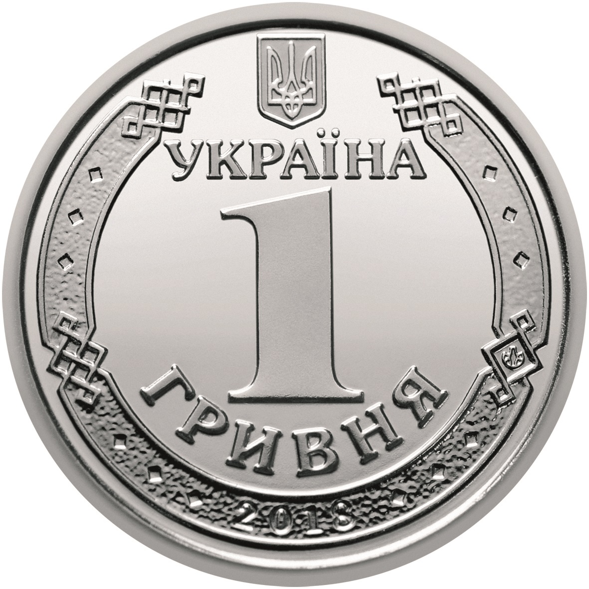 Ukrainian 1 hryvnia coin of 2018 series, averse. Steel with galvanic coating, 18.9 mm in diameter, weights 3.3 g, reeded edge.